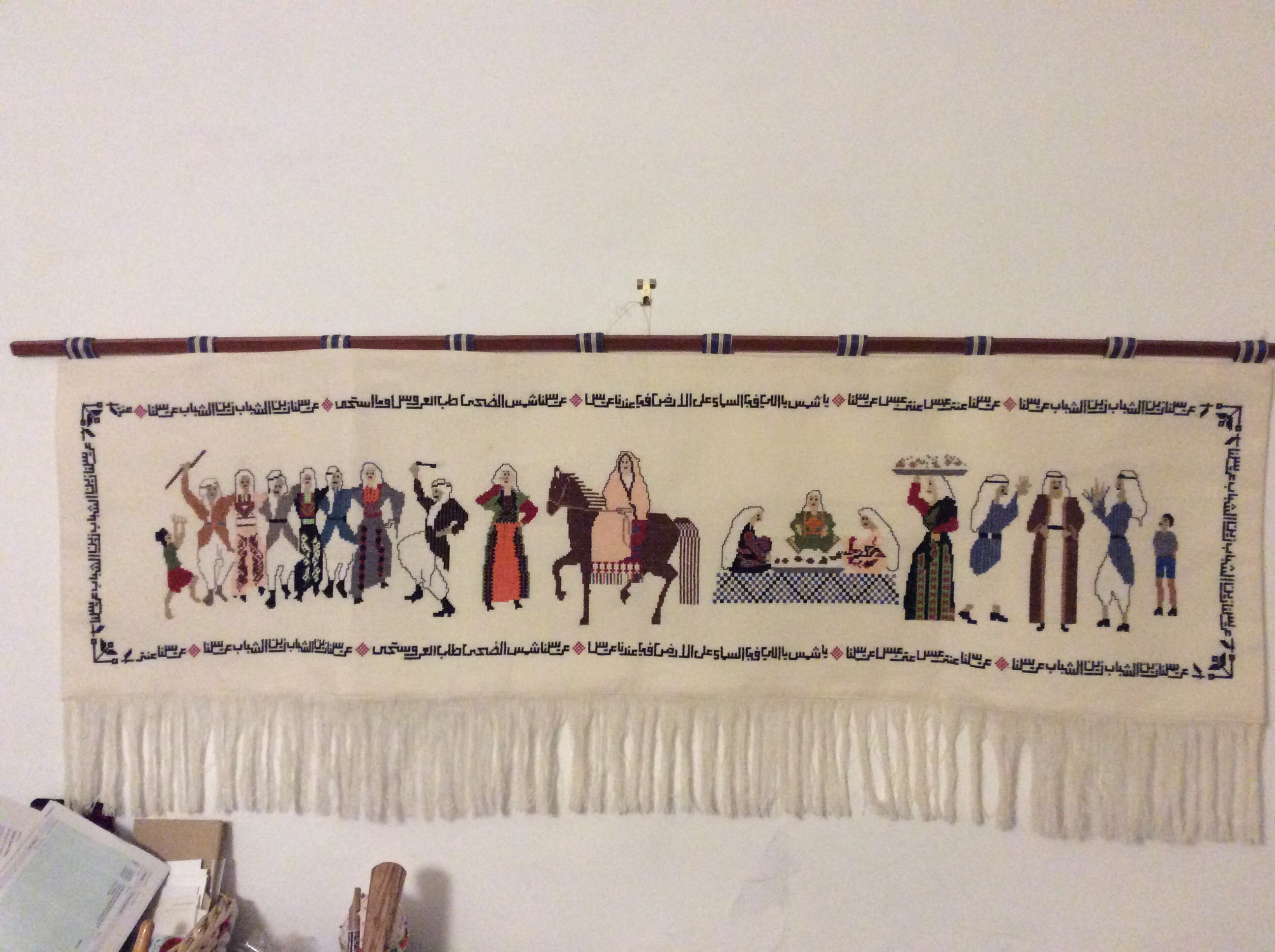 Ramallah 2015